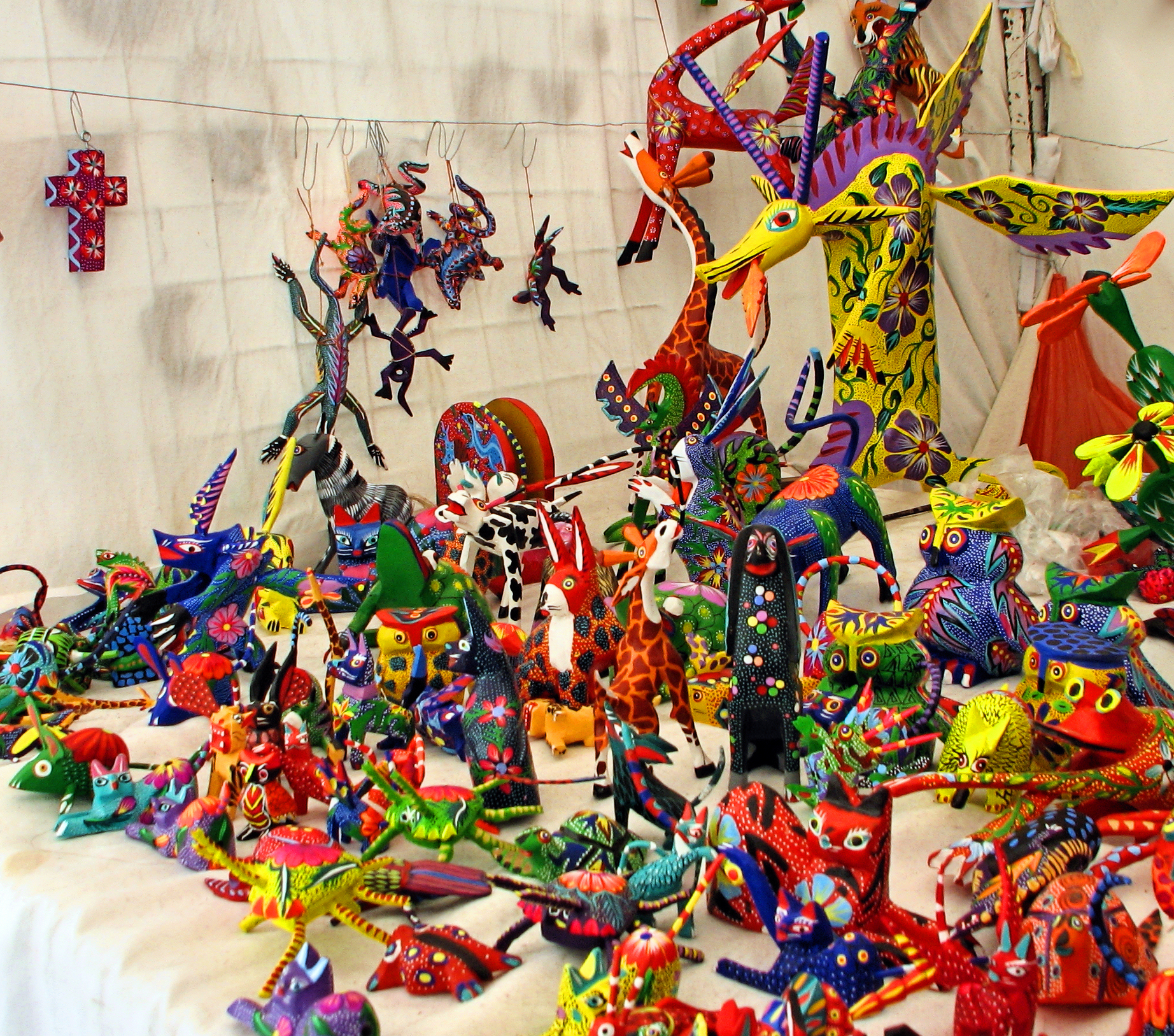 Alebrijes at the Mercado Pochote in Oaxaca, Mexico.